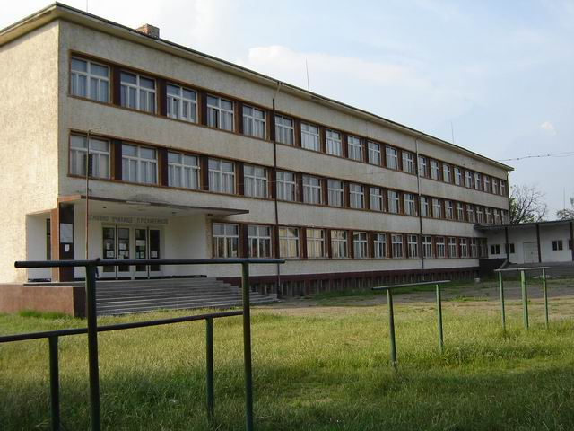 The building of school "P. R. Slaveykov", in village Vasilovtsi, Montana District, Bulgaria